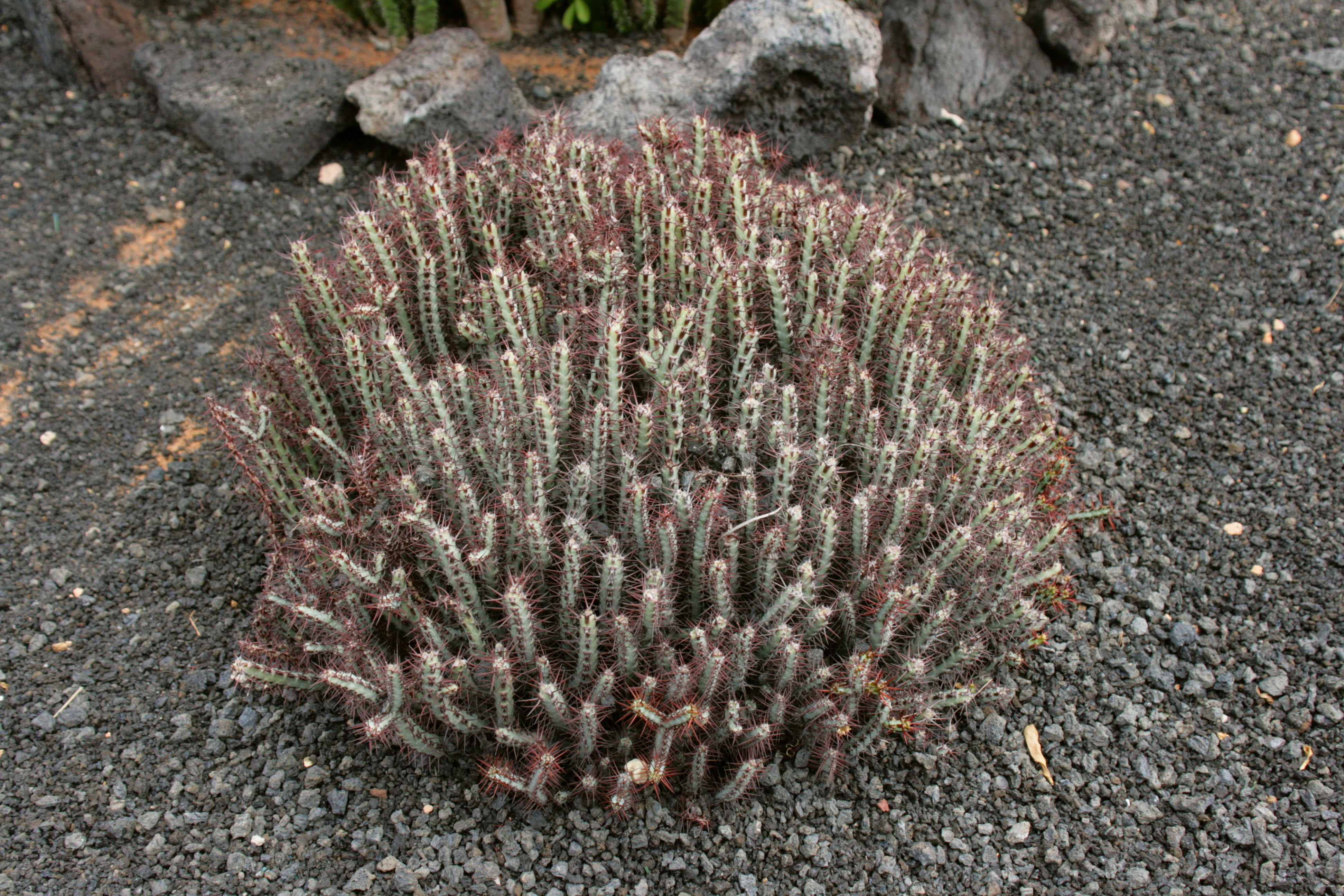 Euphorbia aeruginosa grown at Hotel Gran Meliá Volcán, Calle El Castillo in Playa Blanca, Yaiza, Lanzarote, Canary Islands